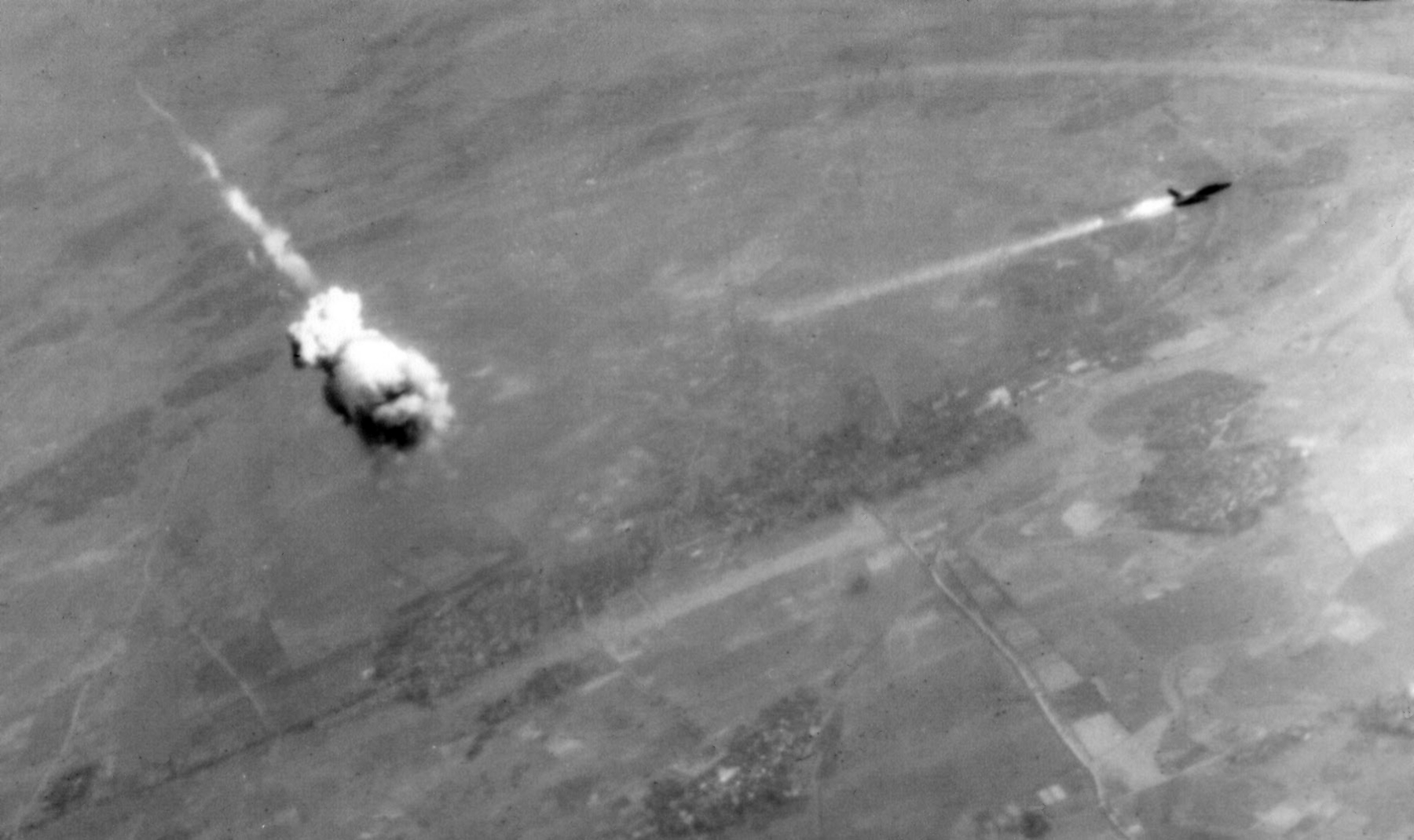 A U.S. Air Force Republic F-105D Thunderchief trailing fire and smoke just after interception by an SA-2 missile on February 14, 1968. The SA-2 did not actually hit an aircraft — the warhead was detonated by a command from the tracking radar or by a proximity fuse in the missile when it neared the target, throwing deadly fragments over a wide area. The pilot, Robert Malcolm Elliot (1929-1968), was killed. His body was not recovered until 1998.